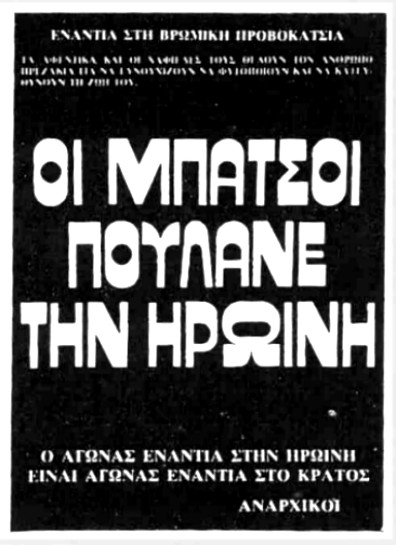 Political Poster about drugs, saying "the cops sell the heroin"